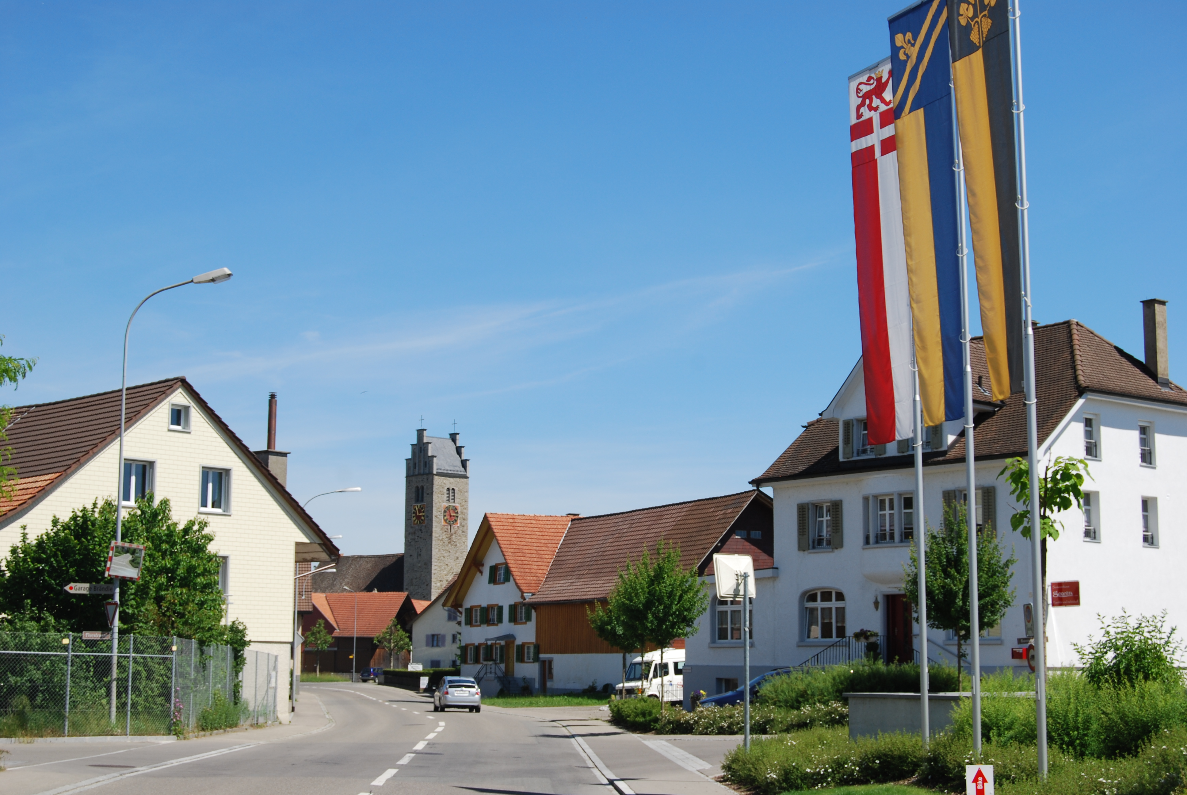 Lommis, canton of Thurgovia, Switzerland